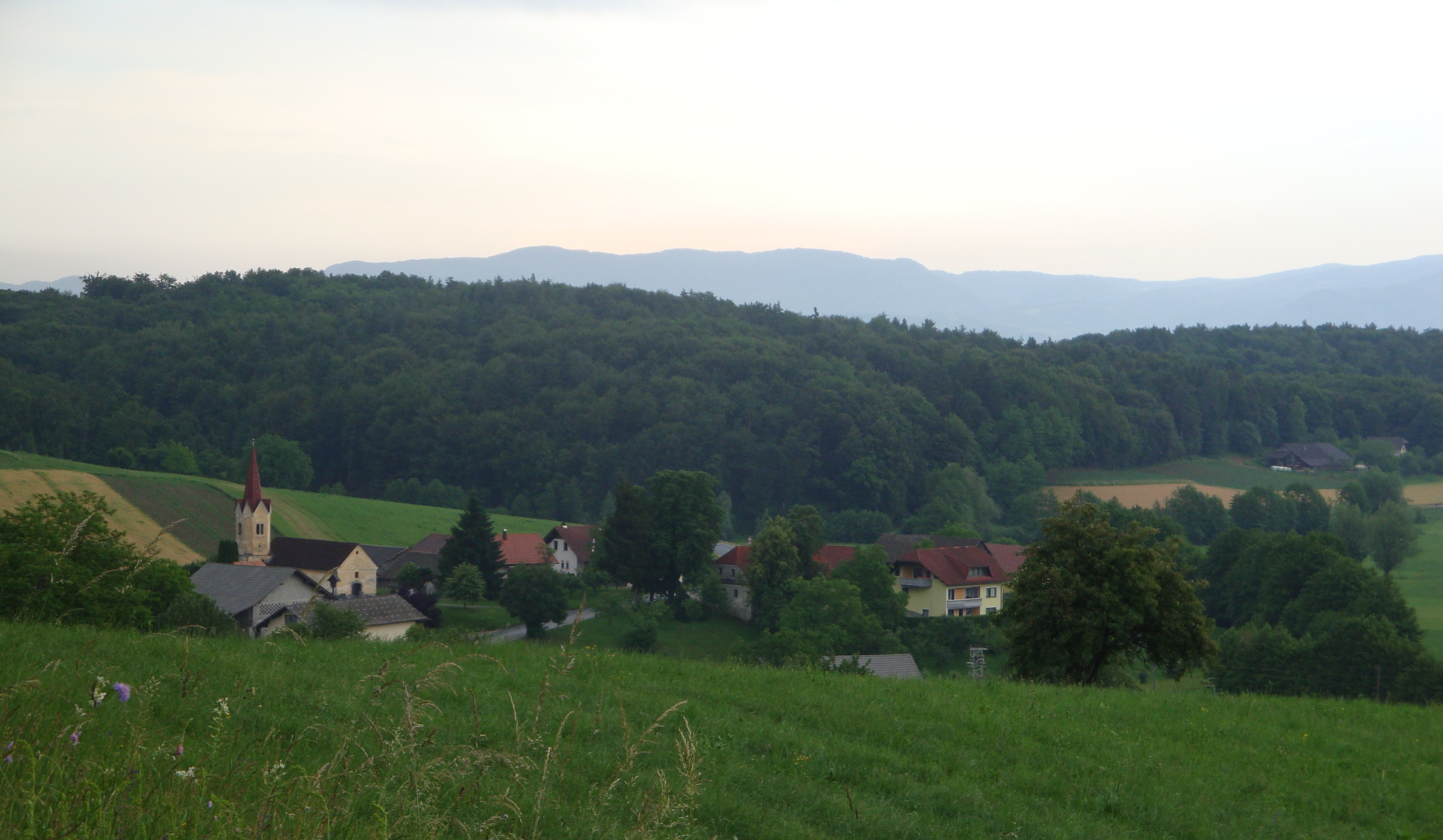 village Dolenje Radulje, Dolenjska, Slovenija